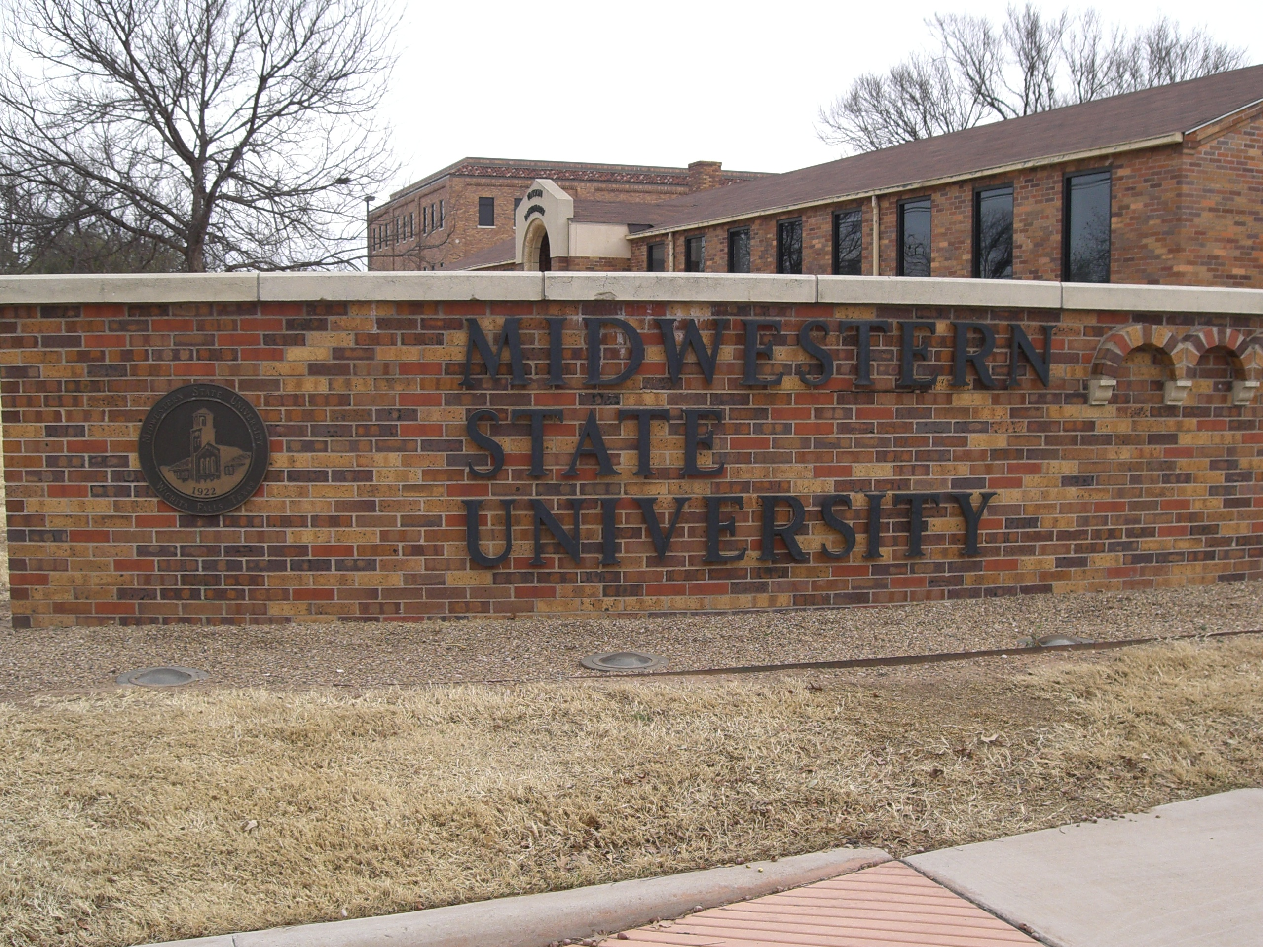 Logo of the Midwestern State University at the entrance of the campus on Taft Blvd.